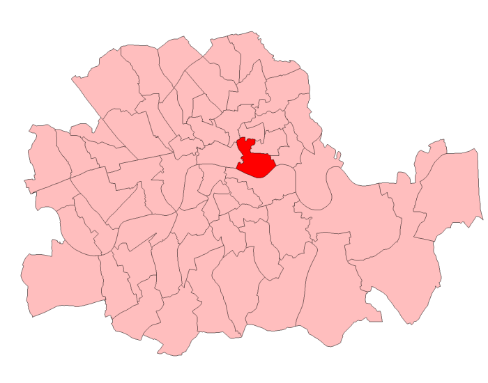 A map of Whitechapel and St Georges constituency within the London County Council area, as it existed from 1918 to 1949.